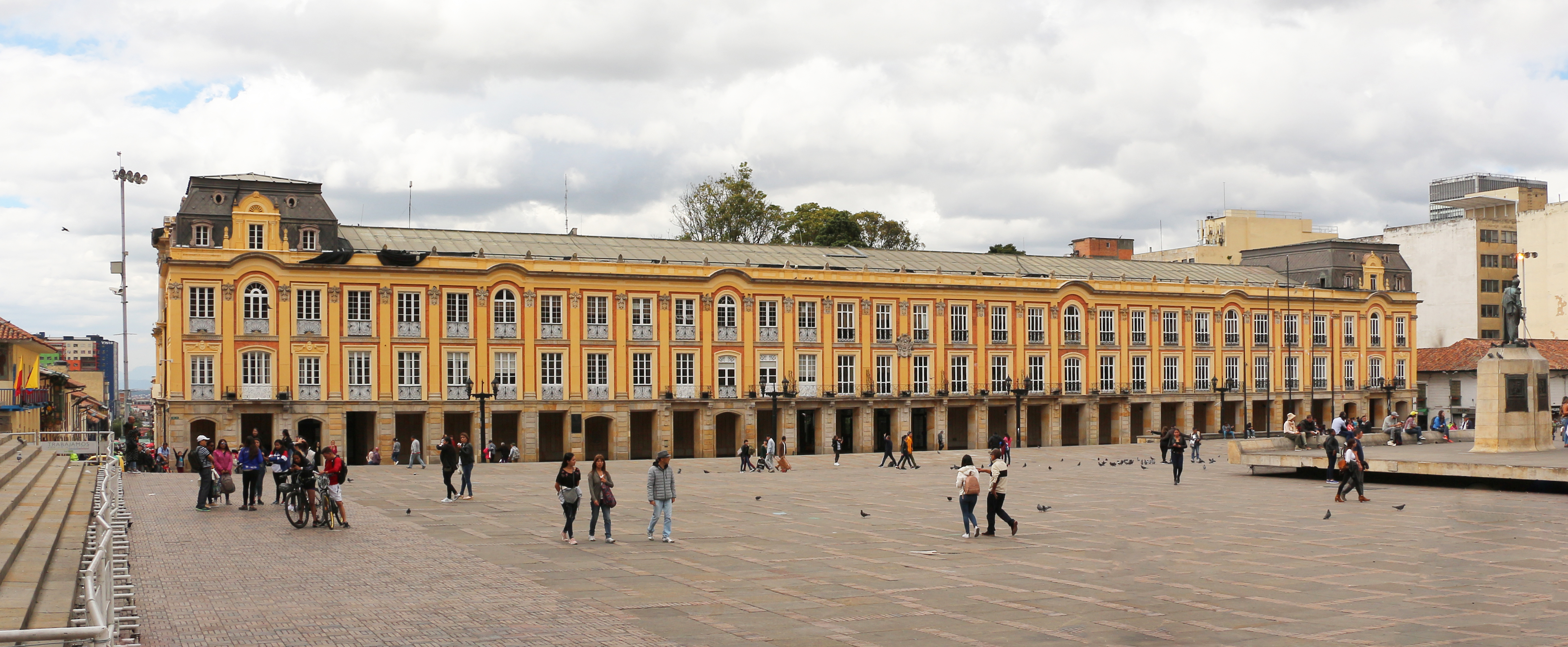 Palacio Liévano, Bogotá, Colombia